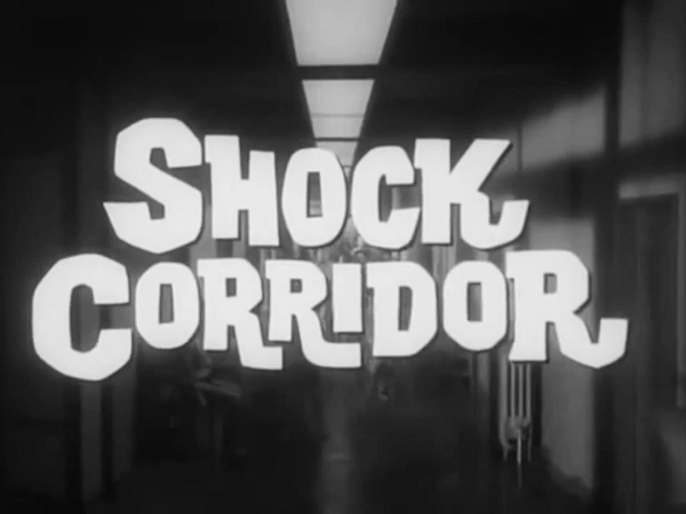 Screenshot of the title screen of the trailer of the film Shock Corridor (1963).